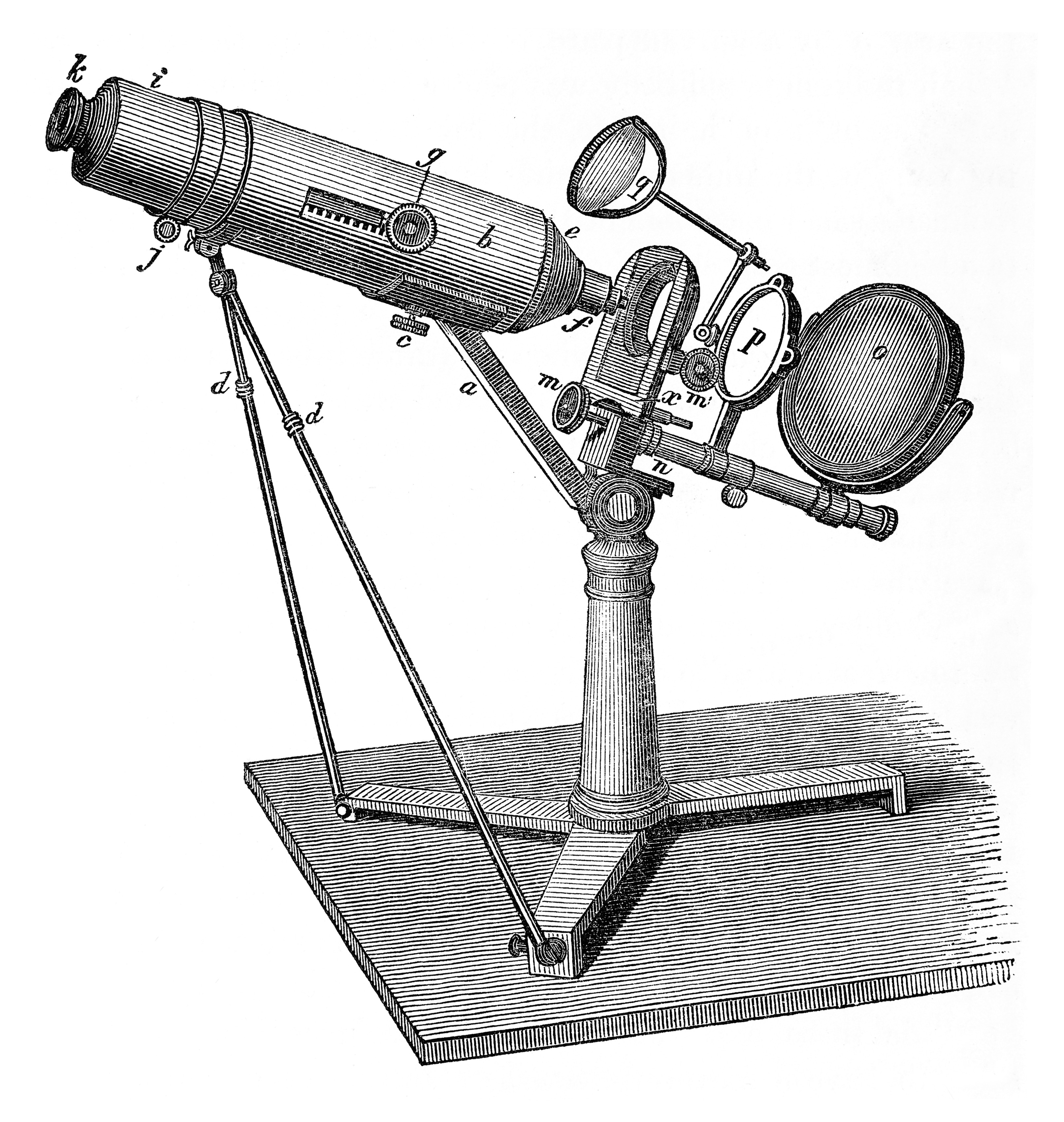 Lister's microscope. Rare Books Keywords: Microscopes; Baron Joseph Lister